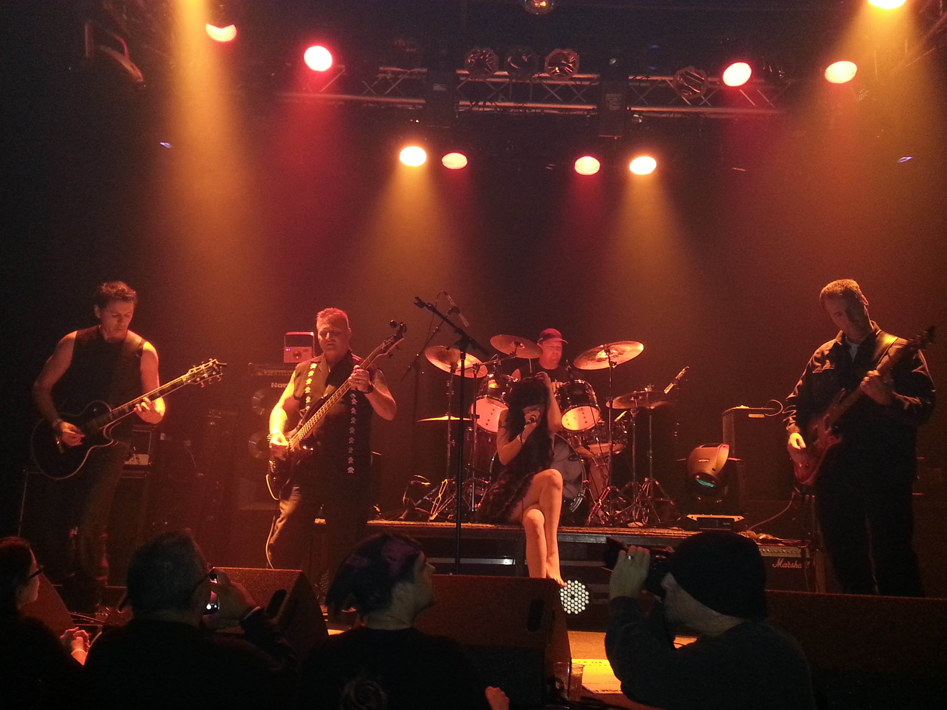 American rock music ensemble Lilith of Exile from Dallas performing at Trees